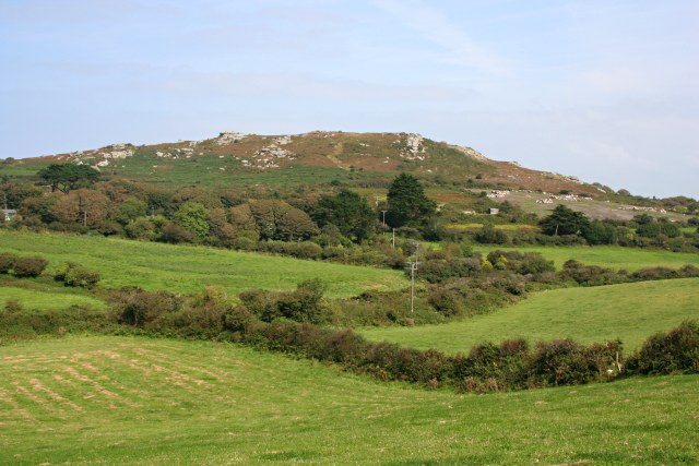 Trencrom Hill Farmland gives way to moorland on this granite hilltop.